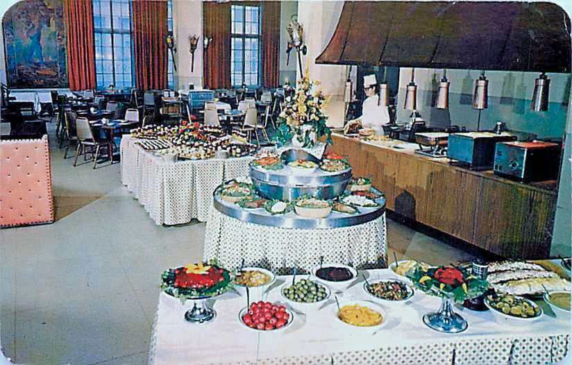 Americus Buffet - 1950s